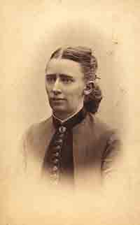 Photograph of the Danish pedagogue, writer and women's rights activist Kirstine Frederiksen (1845-1903)